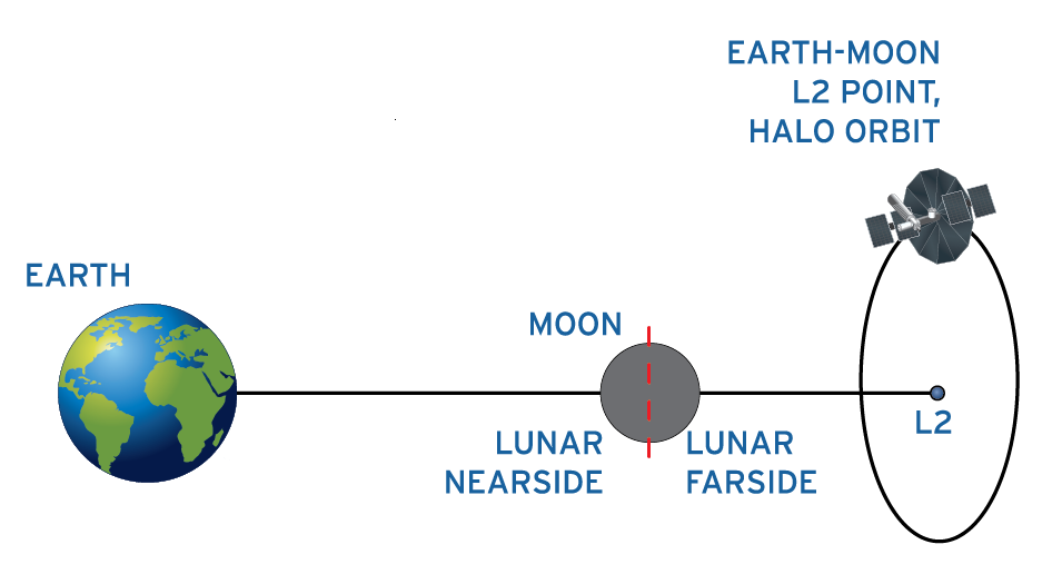 Halo orbit of space probe Queqiao